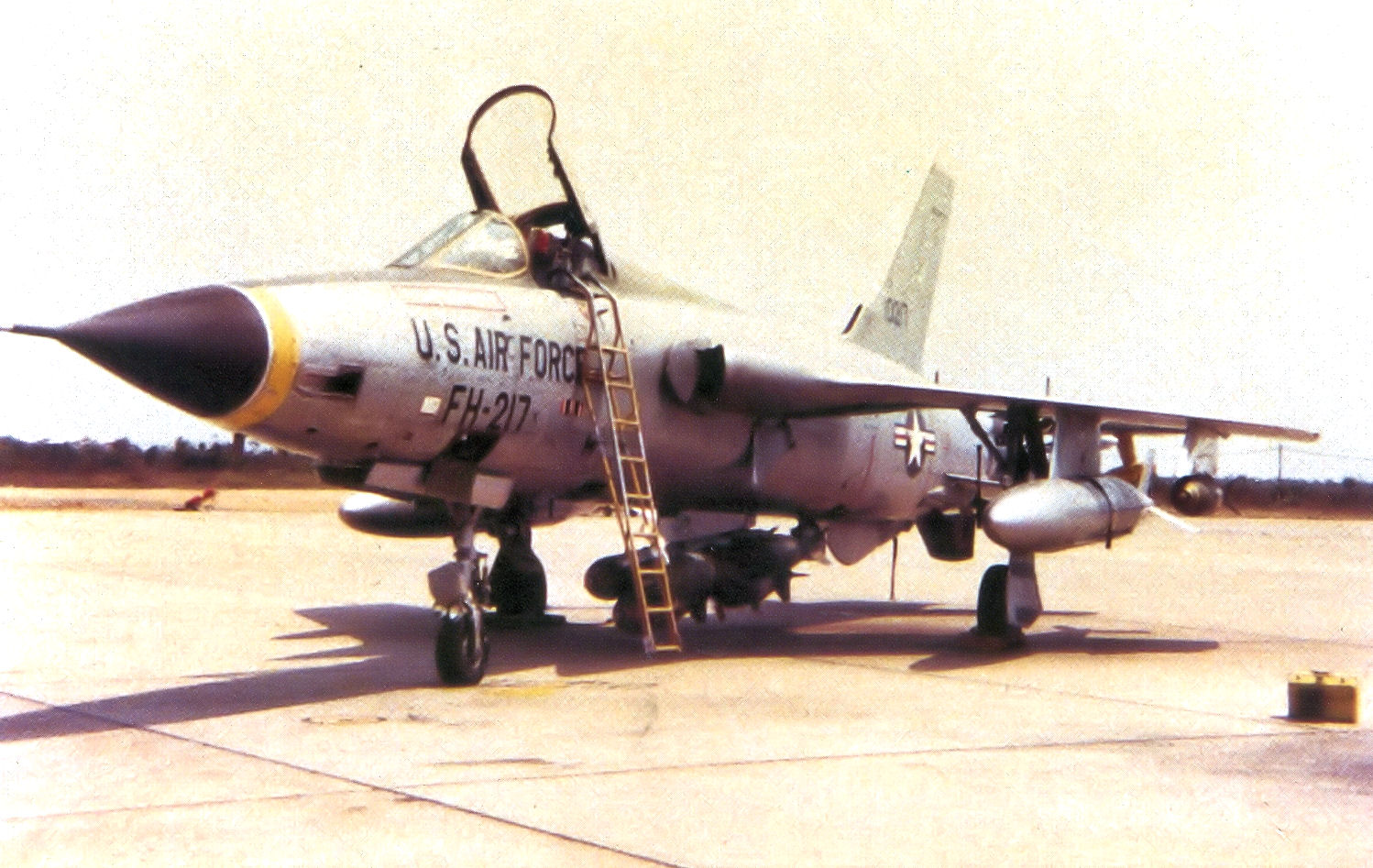 12th Tactical Fighter Squadron Republic F-105D-25-RE Thunderchief 61-0217 1965 Shot down by AAA over Route Pack 4 on 16 September 1965. Lieutenant Colonel Robinson Risner ejected and became a POW.